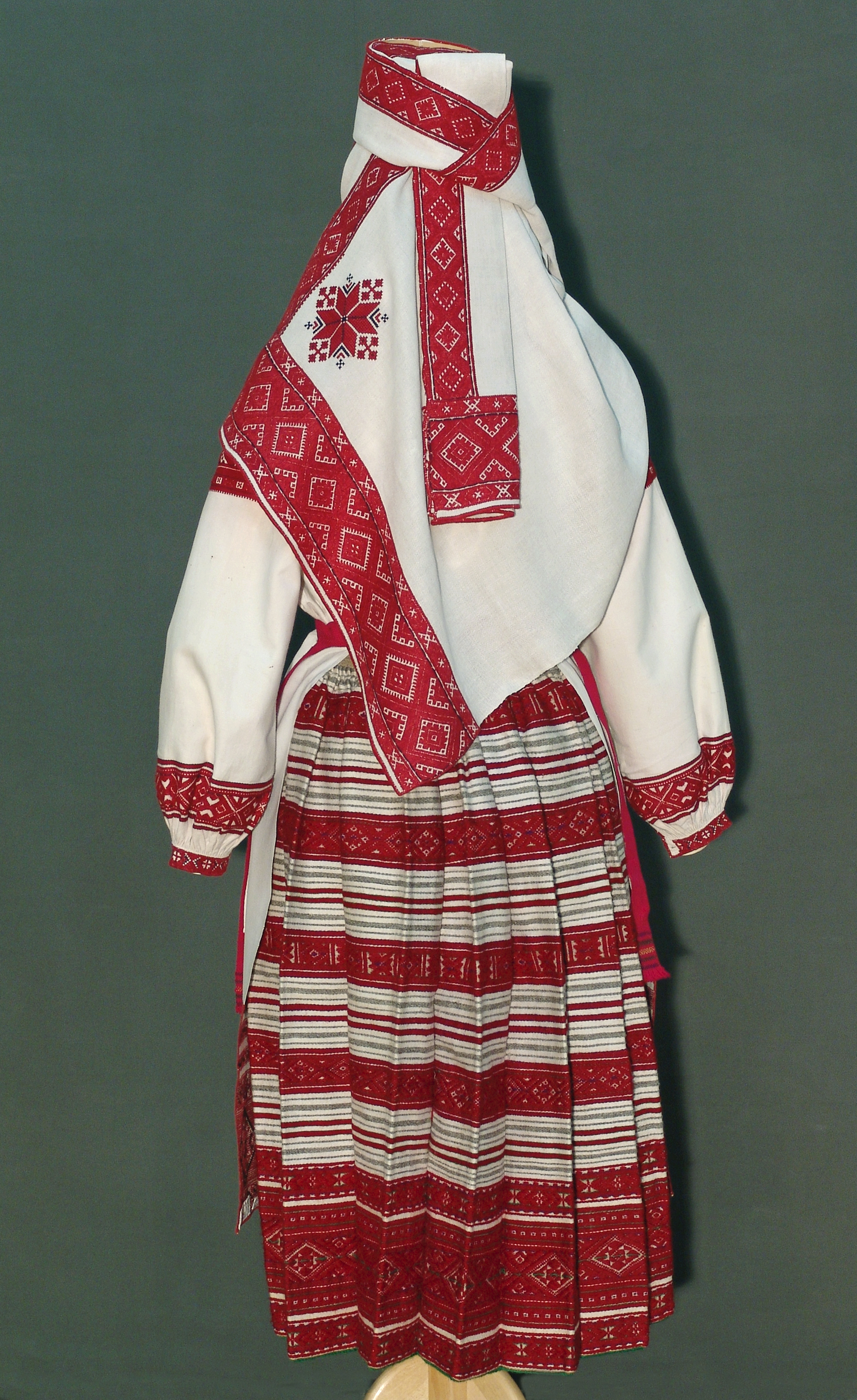 Traditional summer woman clothing of Belarusian peasants (Zburaž village, Malaryta District, Belarus), the end of the XIXth century. Location: Museum of Belarusian Folk Art (Minsk city, Belarus)